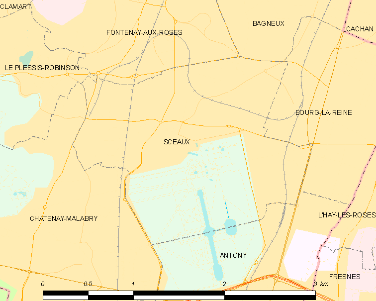 Map of French municipality Sceaux